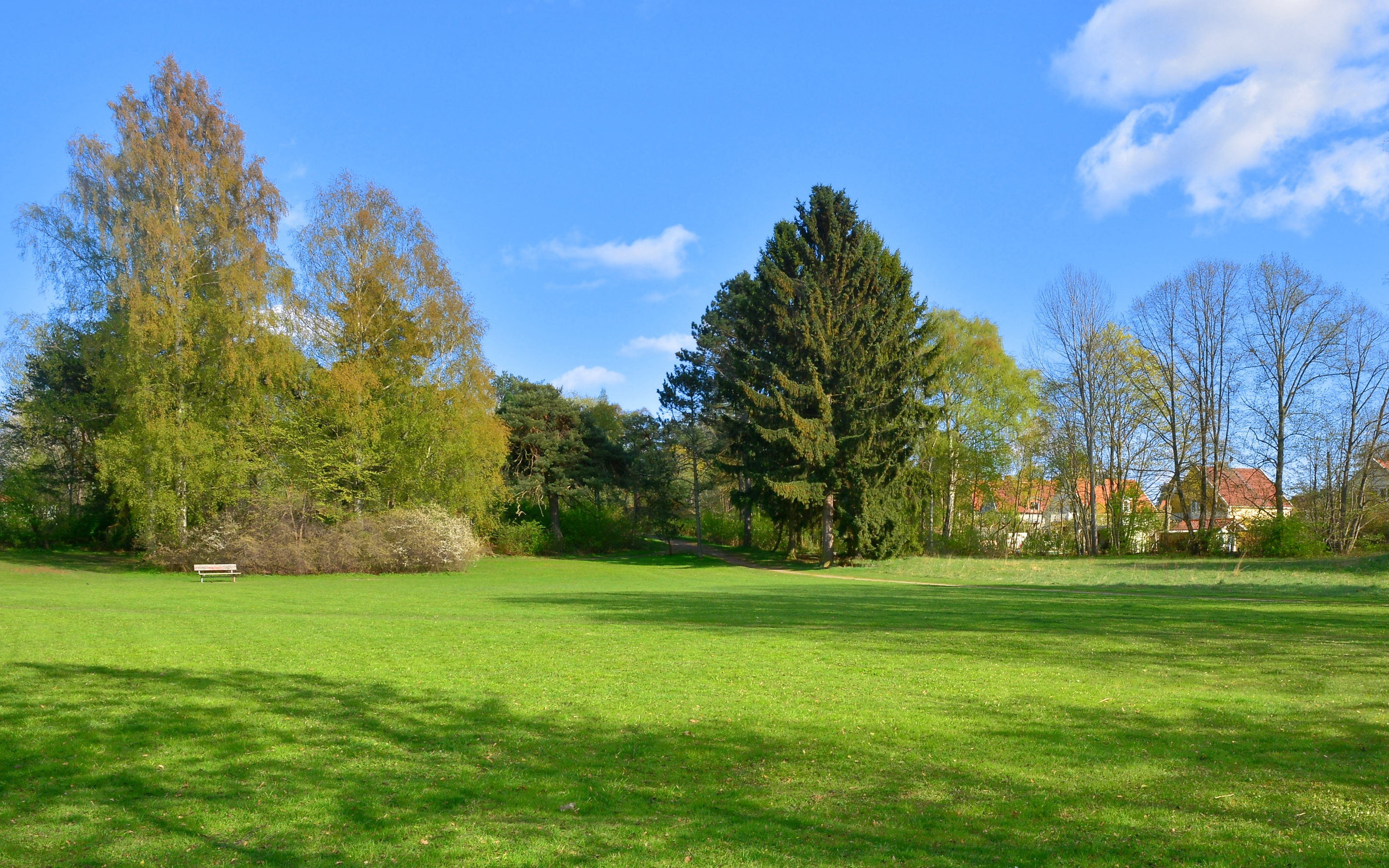 Lindeparken in Enskede, southern Stockholm, Sweden.